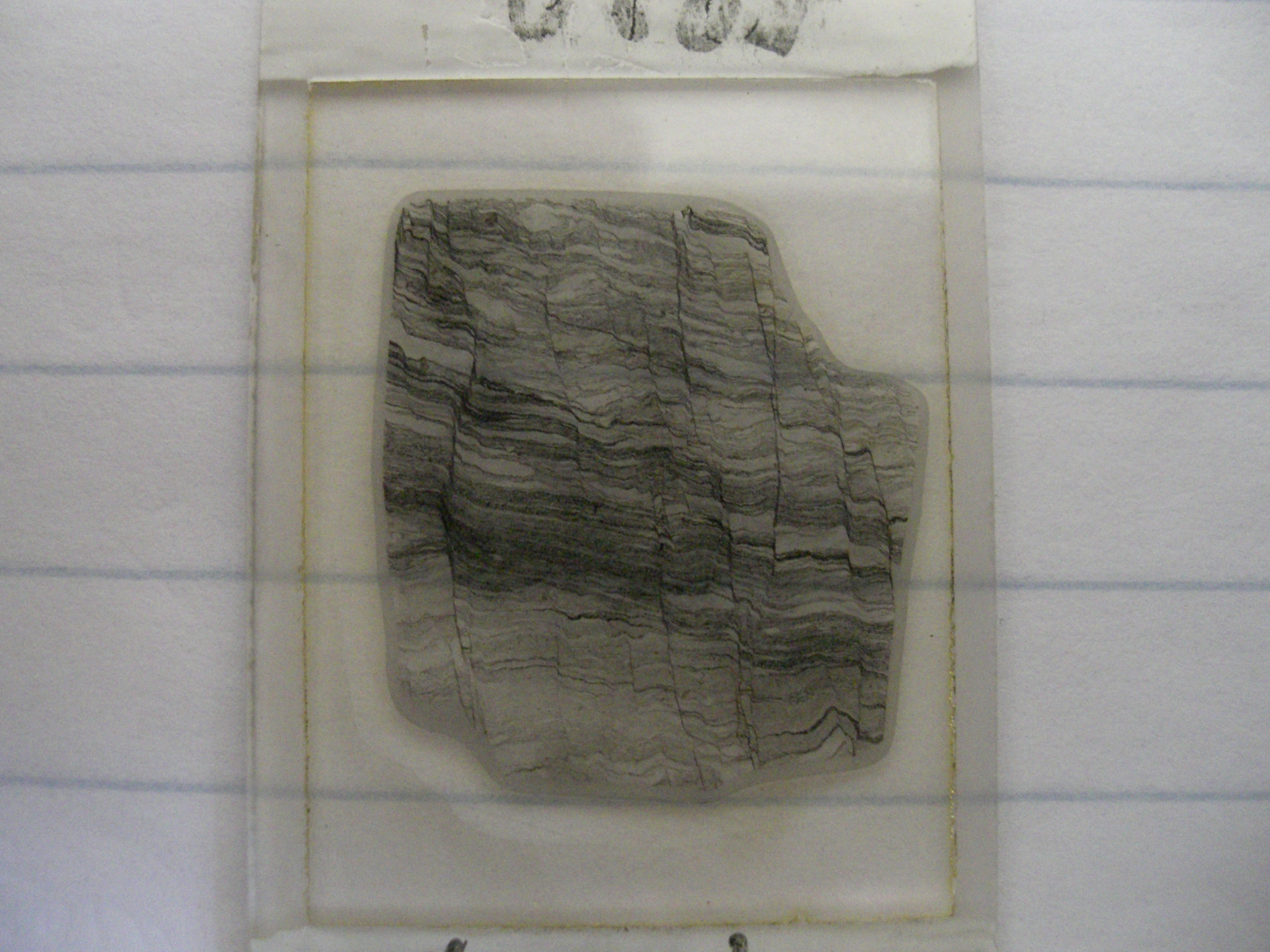 Metamorphic rock Phyllite in microscope. Macro view